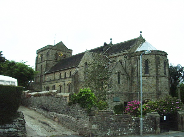 Parish church of St John the Evangelist, Flookburgh, Cumbria, seen from the east